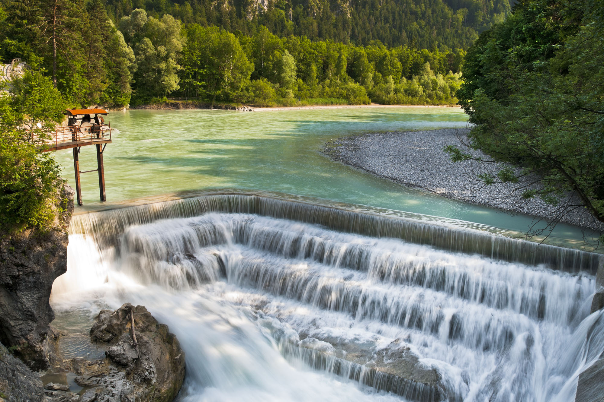 Lechfall / Füssen